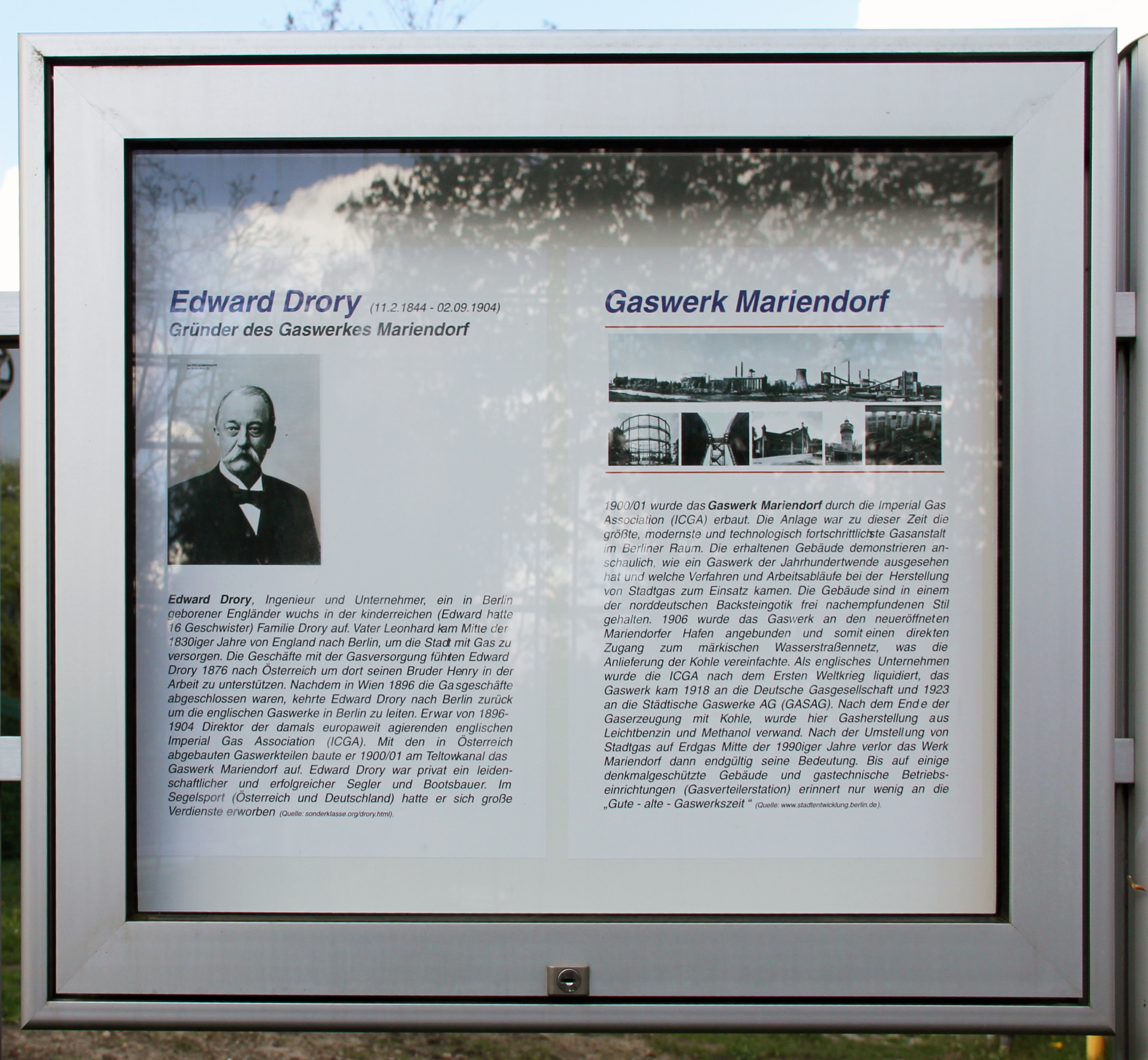 Memorial plaque, Edward Drory, Altes Gaswerk Mariendorf, Berlin-Mariendorf, Deutschland